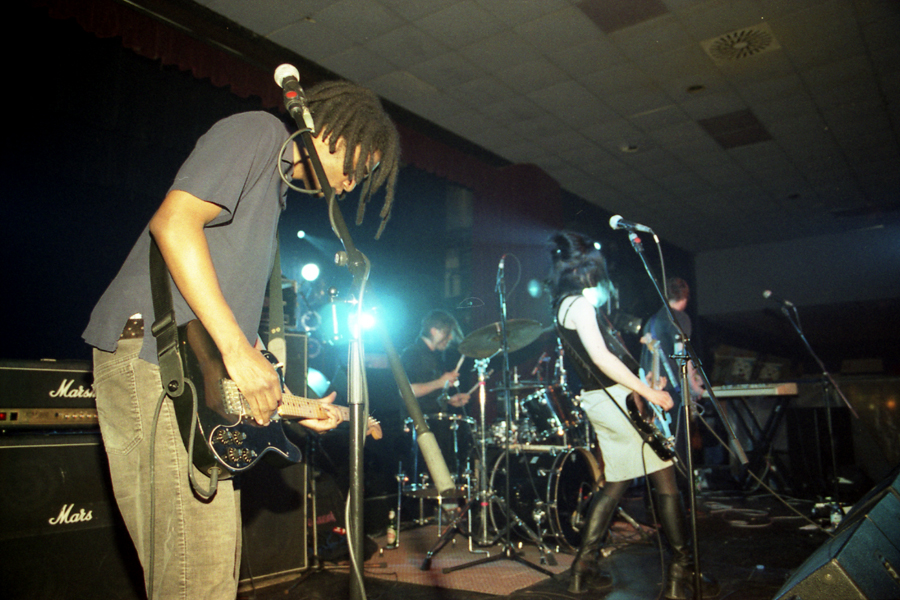 Atomicbombpocketknife live in concert.